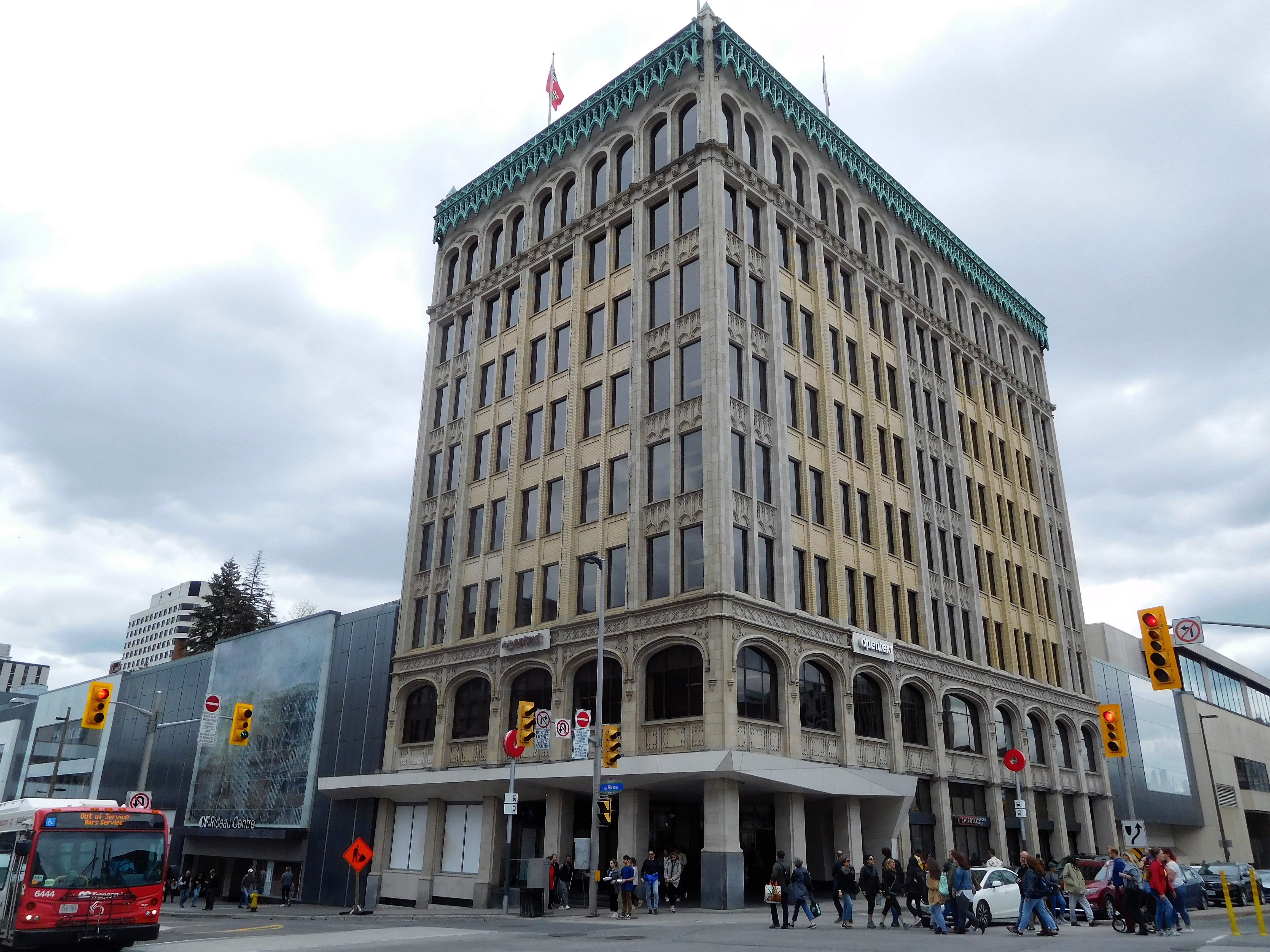 The Transportation Building in downtown Ottawa, Canada. Built by C. Jackson Booth, son of lumber baron J.R. Booth in 1916, it became Ottawa's city hall in 1931 when the purpose-built city hall on Elgin Street was destroyed by fire. Since 1958, the building has served as office space for federal and provincial civil servants. In the early 1980s, the building was connected to the Rideau Centre.